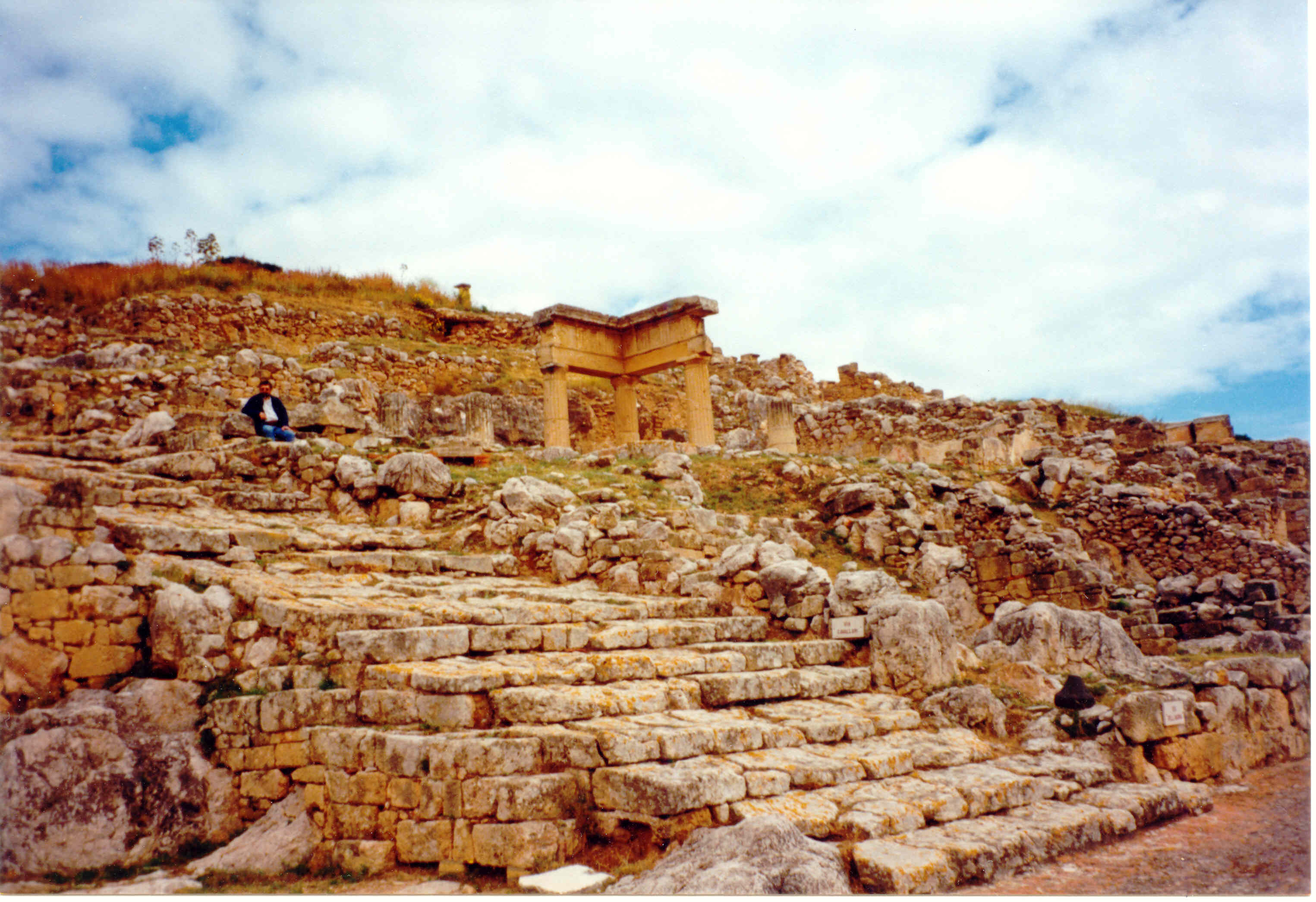 View of solunto, Italy (via Cavallari)